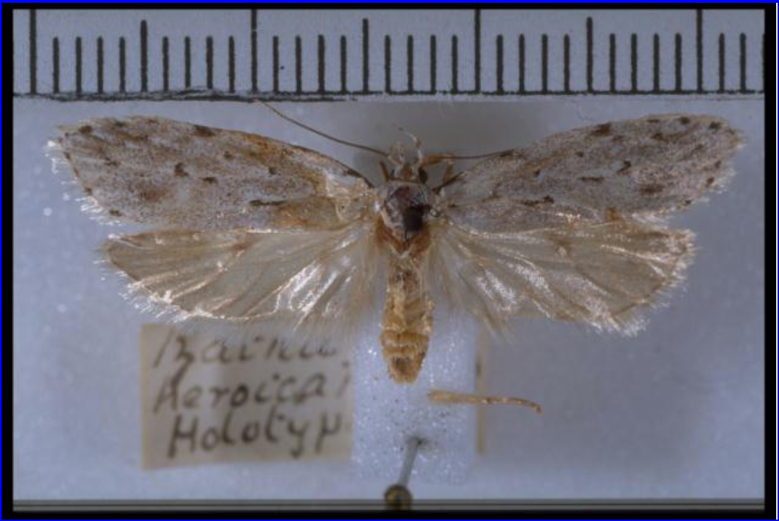 Holotype of Izatha heroica Philpott, 1926. New Zealand Arthropod Collection Ko te Aitanga Pepeke o Aotearoa - New Zealand Land Invertebrate Names Database.